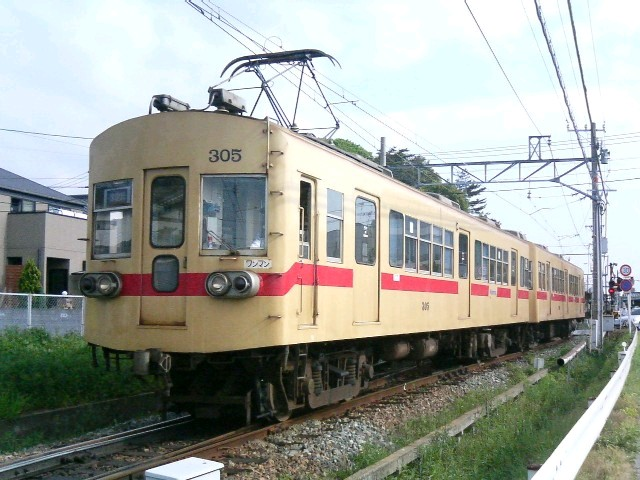 Nishi Nippon Railroad EMU Type300 305F(305-355)